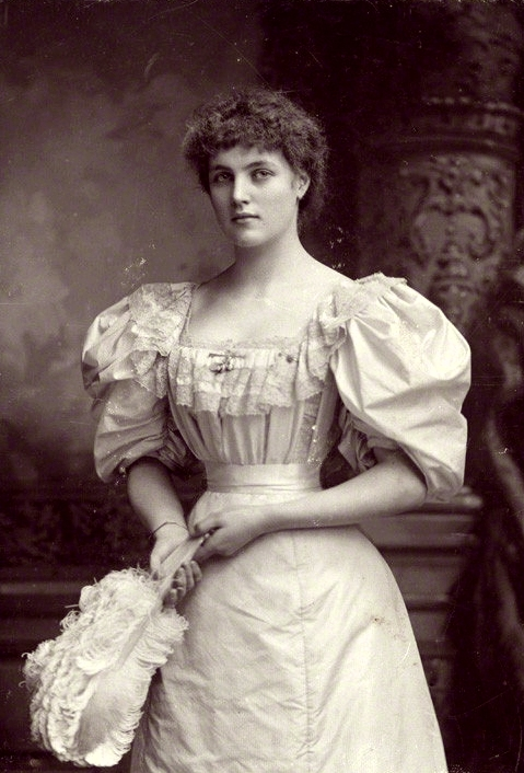 Lady Beatrice Frances Elizabeth Pole-Carew (née Butler) (1876–1952)